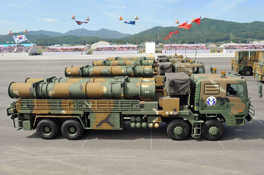 Hyunmoo-3 cruise missile on display during south korea's 65th military anniversary parade